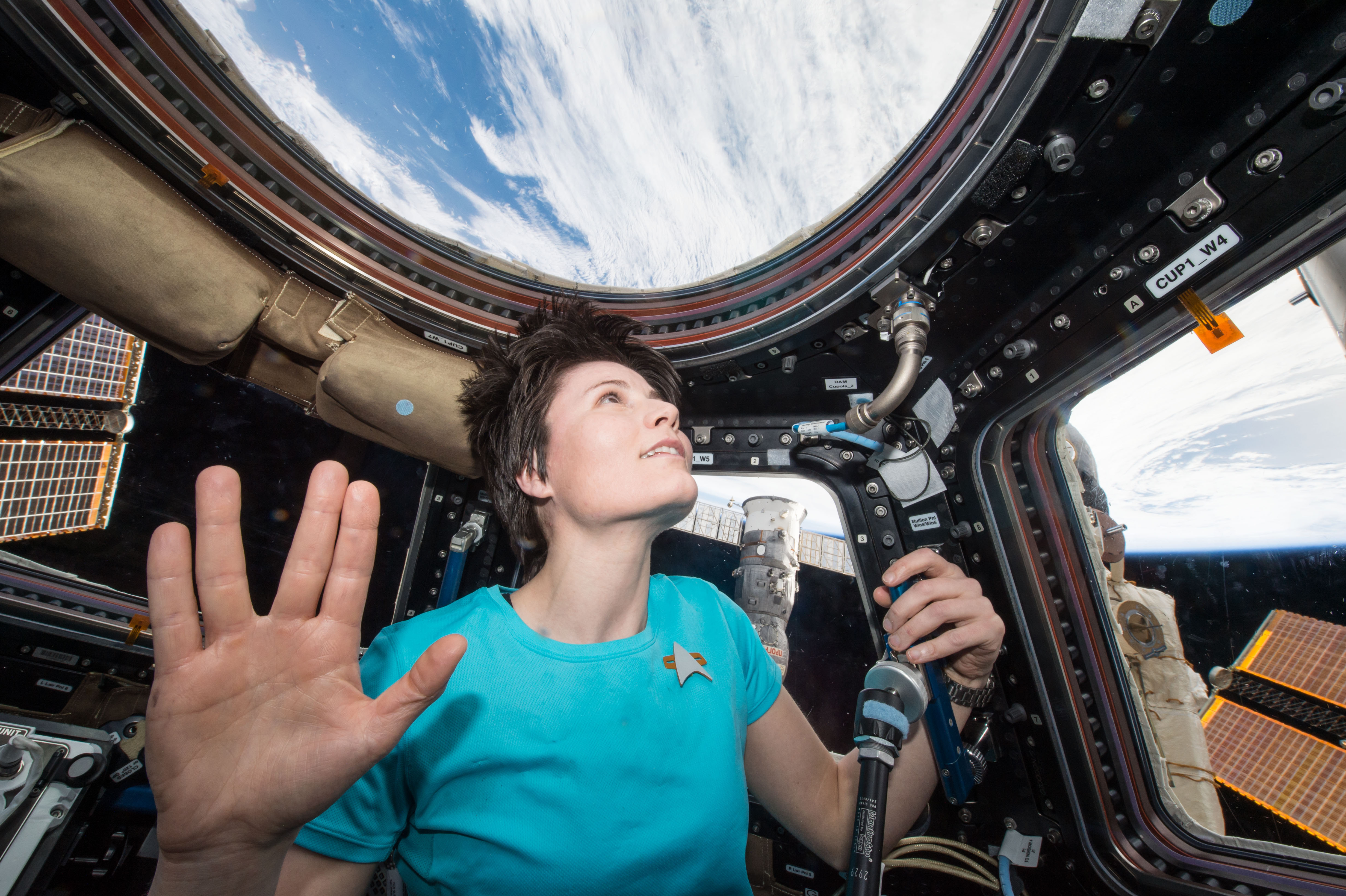 ESA (European Space Agency) astronaut Samantha Cristoforetti on Feb. 28, 2015 tweeted this photo and gives a final salute to Star Trek's Leonard Nimoy who passed away the previous day. Cristoforetti, who in the photo also wears an insignia common to members of Star Trek's fictional Starfleet, was a flight engineer on the International Space Station. She commented in the Tweet "'Of all the souls I have encountered.. his was the most human.' Thx @TheRealNimoy for bringing Spock to life for us"